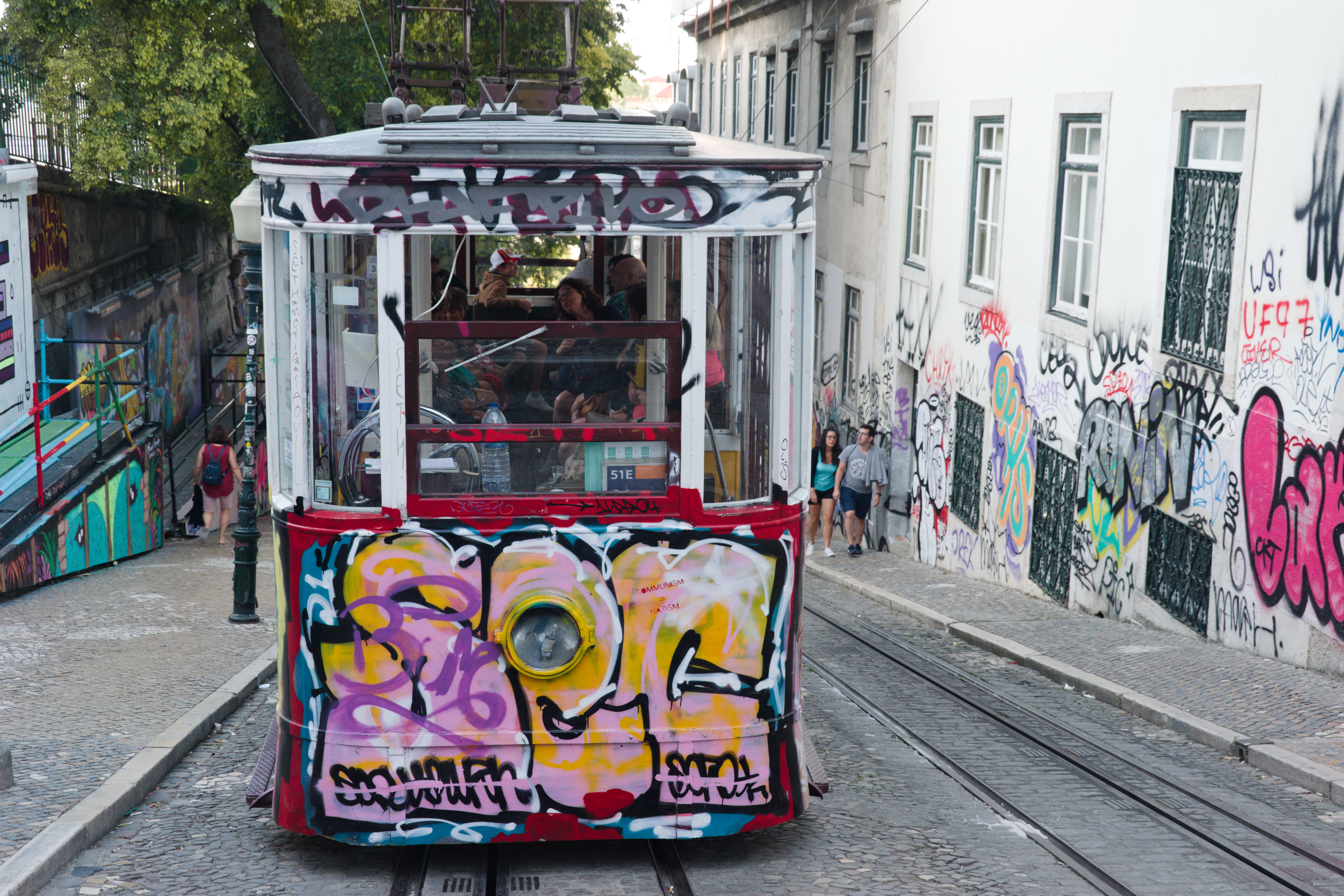 Funiculaire de Glória (Lisbonne)